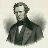 Hans Johansen (1804-1862), Danish farmer and politician